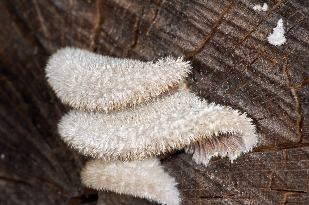 Fungi, Valle Maggia, Ticina, Switzerland